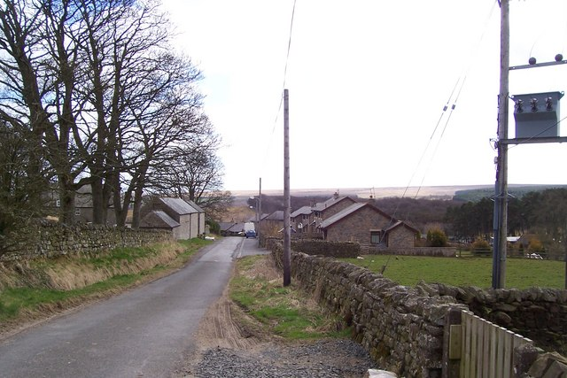 Rochester Looking back to Rochester on the road to Bremenium